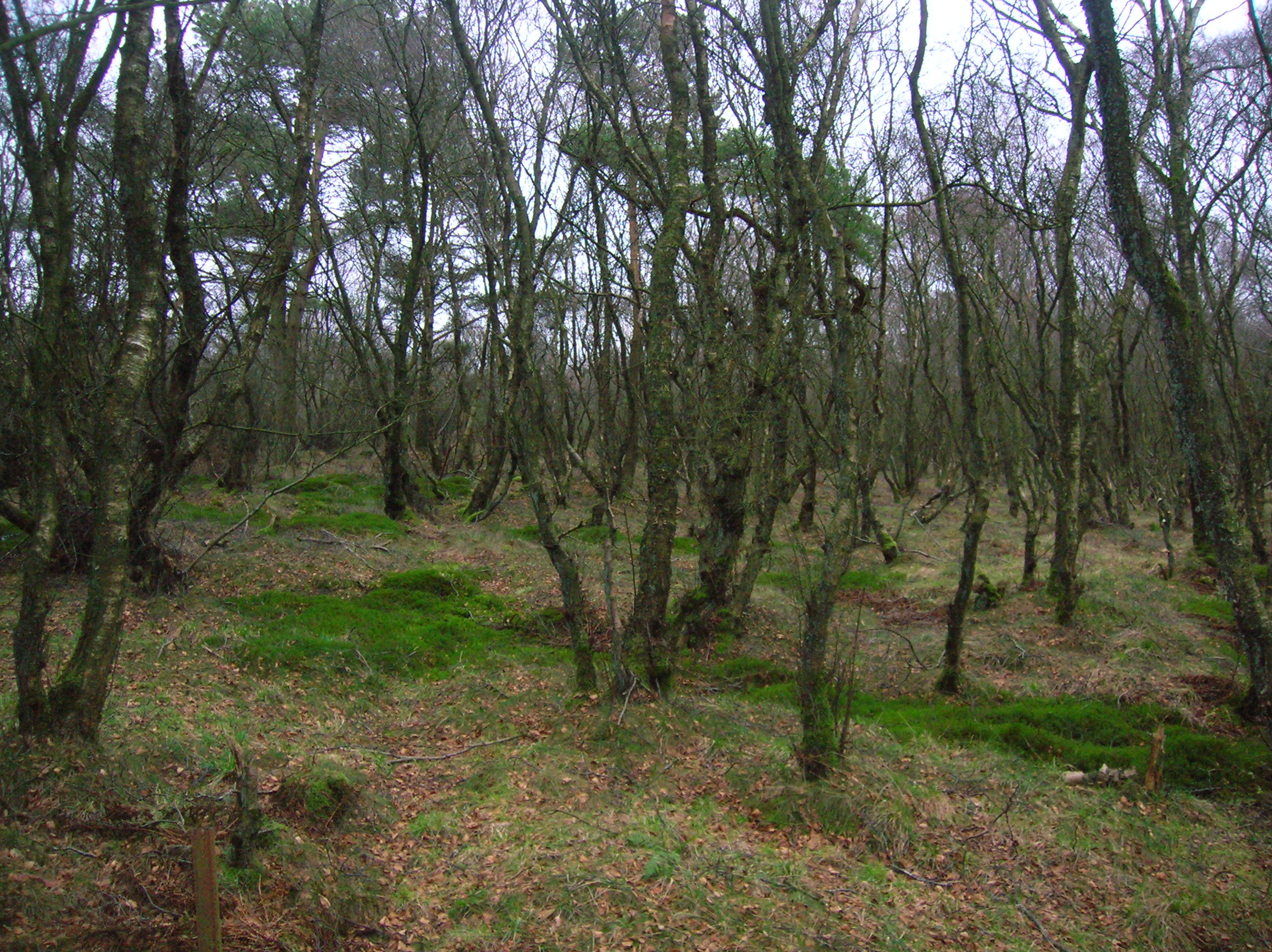 Woodland at Auchentiber Moss, a lowland raised bog, North Ayrshire, Scotland.